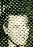 Pepe Parada-actor argentino